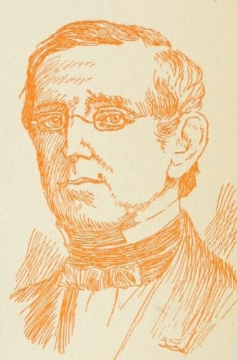 Governor Daniel Haines (New Jersey)